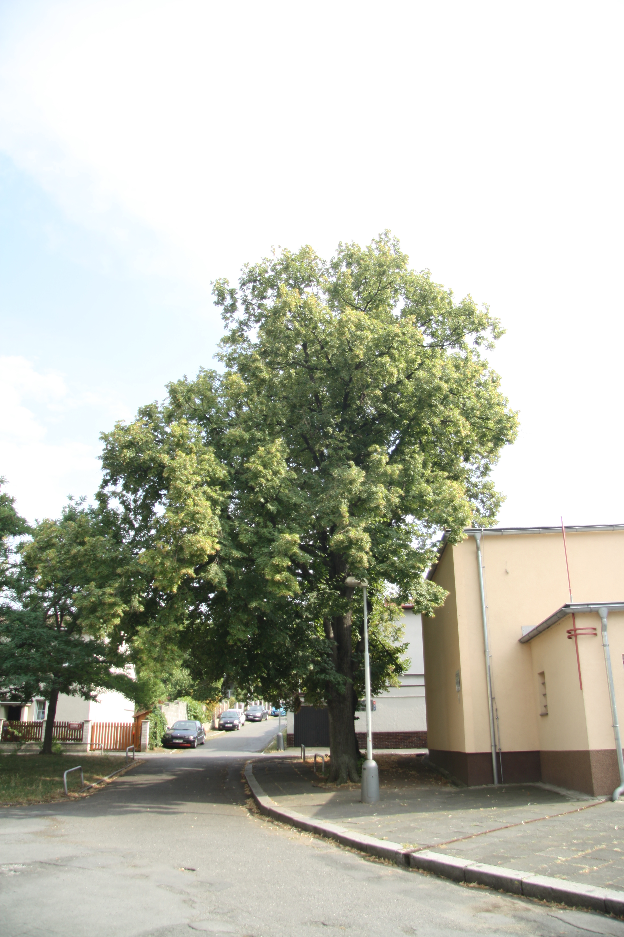 Famous trees Sokolské lípy na Spořilově in Prague-Záběhlice, Prague.